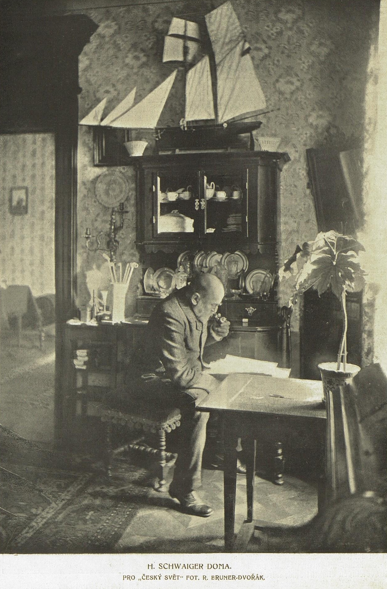 Hanuš Schwaiger (1907, Czech painter)